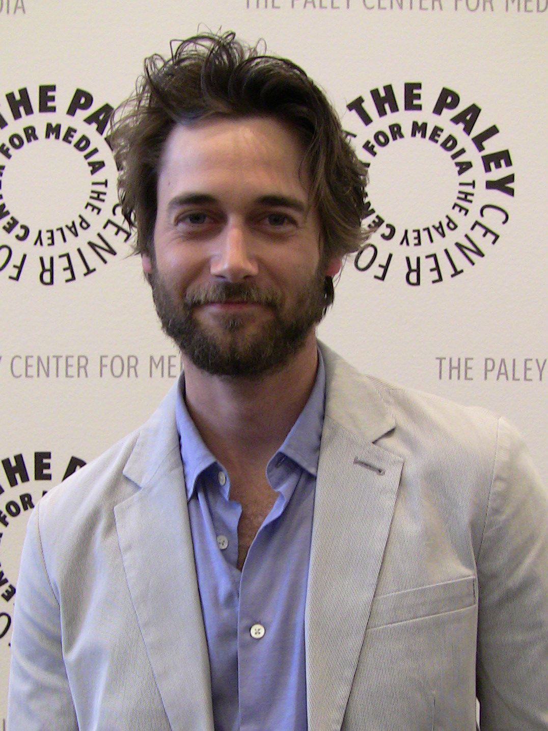 Actor Ryan Eggold at 90210 Paley Fest. William S. Paley Center, Beverly Hills, California